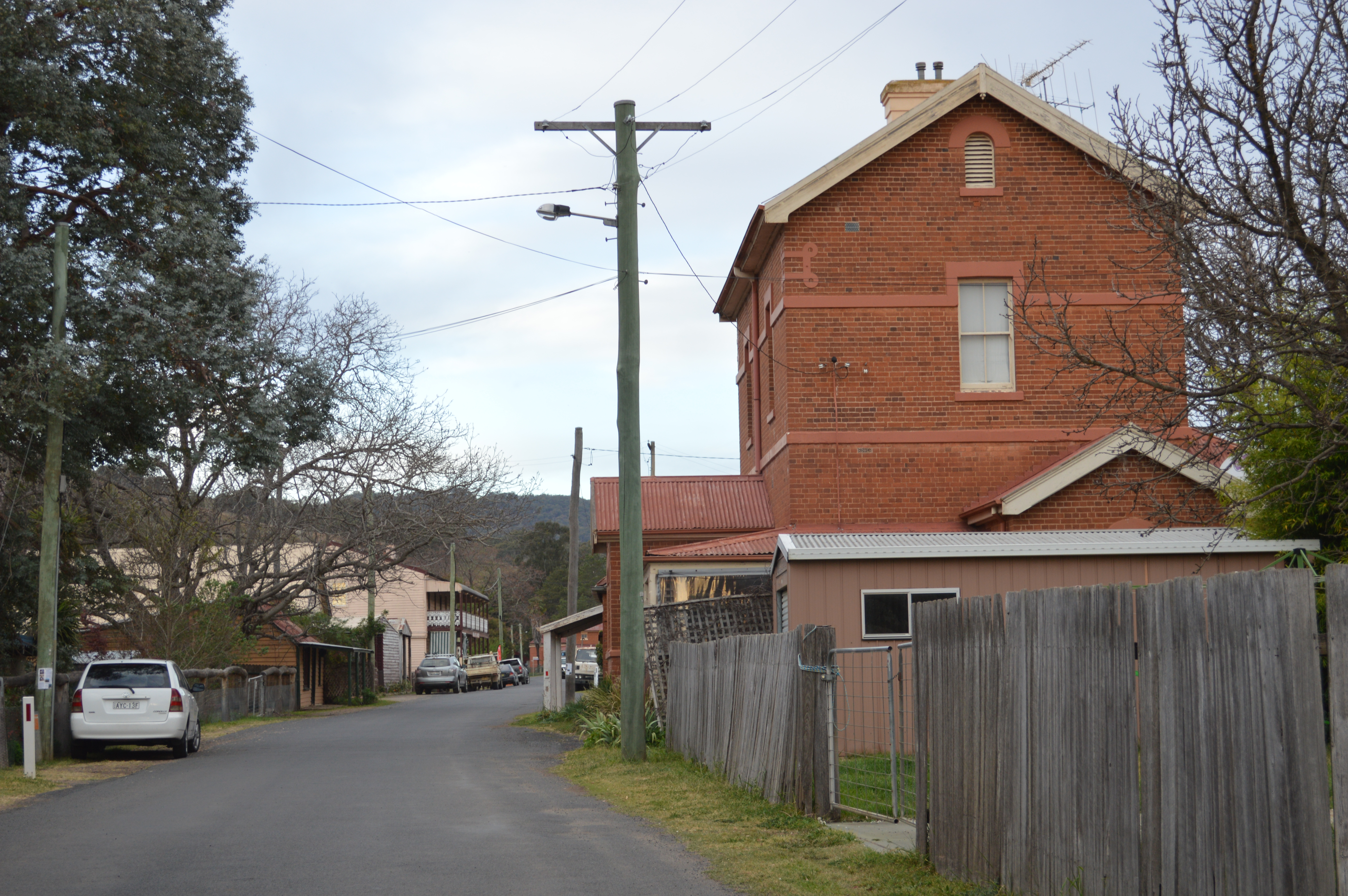 Denison Street, the main street of Sofala, New South Wales